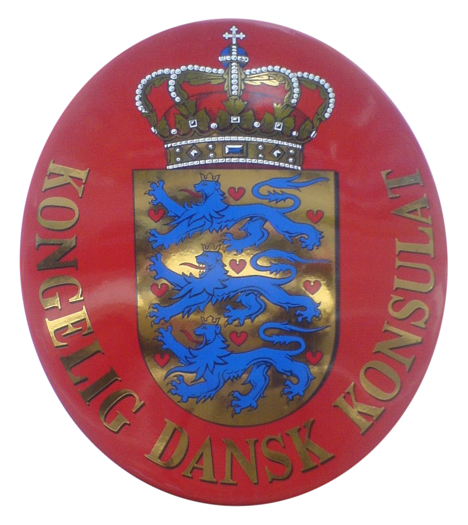 Royal Danish Consulate, Munich